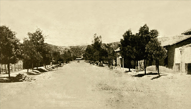 Main street of Marchigue, familiar shot